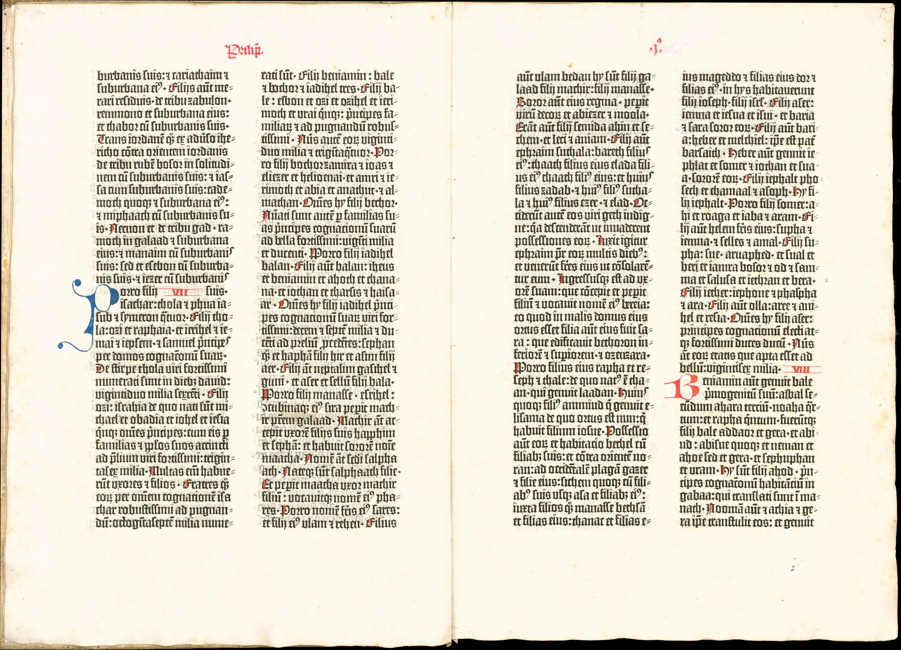 Spread from the 36-line Bible printed in 1458—1460s in Bamberg. Copy of the Bayerische Staatsbibliothek.